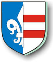 Coat of arms of Family Rømer I